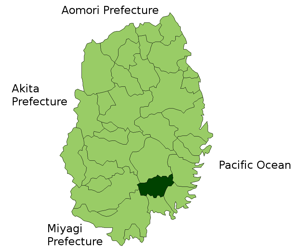 Location Map of Sumita in Iwate Prefecture, Japan